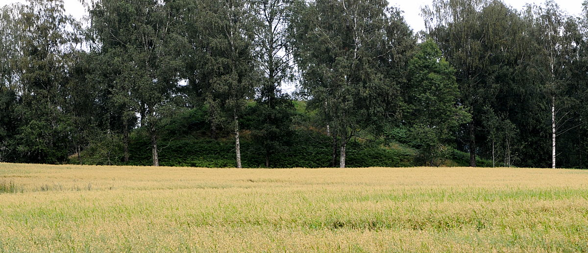 Raknehaugen tumulus in Ullensaker, Norway